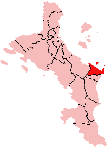 Map of Mahe Island, Seychelles showing Pointe La Rue District; created with the GIMP. Made by User:Acntx.